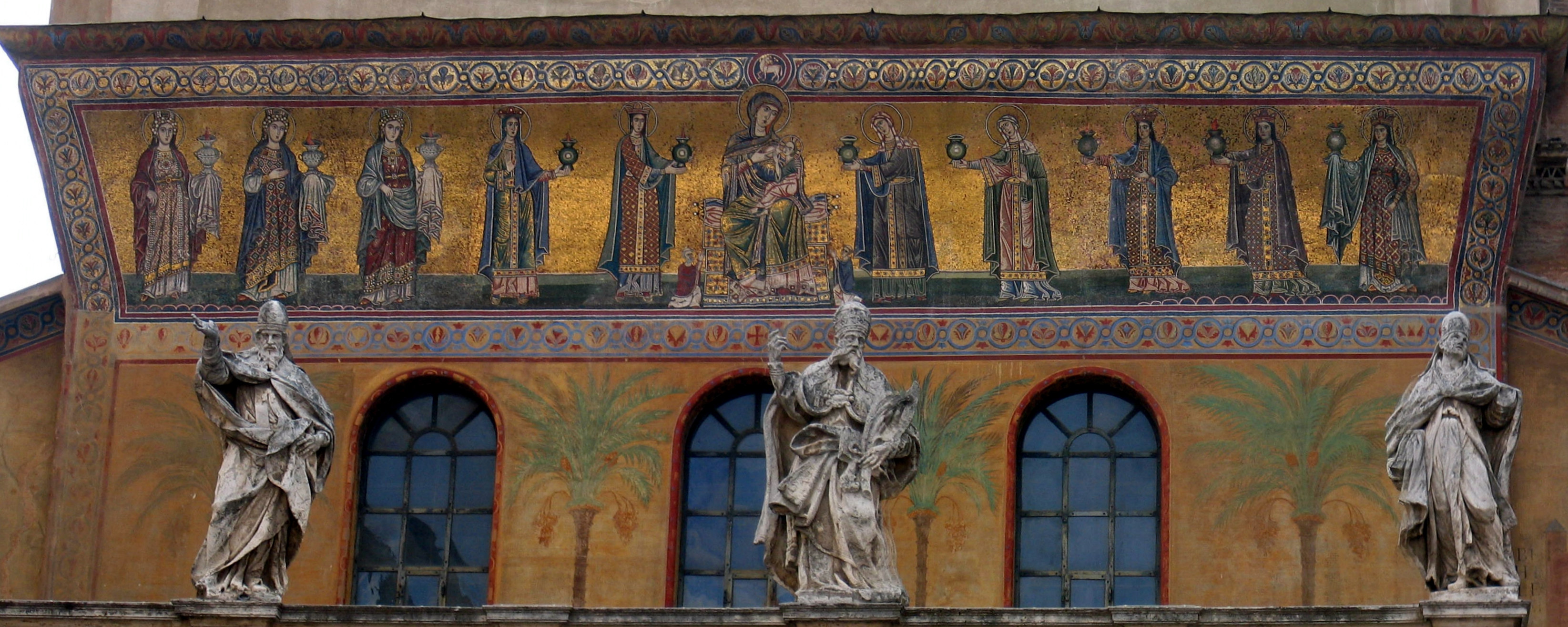 12th-century mosiac on the exterior of the Basilica di Santa Maria In Trastevere. Taken on 7/8/2006 by --Bjsamelsonjones 23:55, 25 July 2006 (UTC)